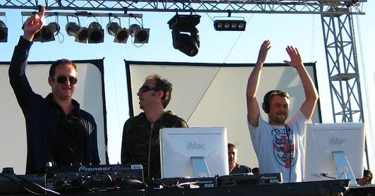 Sasha (left) at an August 2006 performance with Spooky (Duncan Forbes center and Charlie May right)